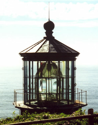 Cape Meares Lighthouse Lens, Oregon Taken by Elf in 1996